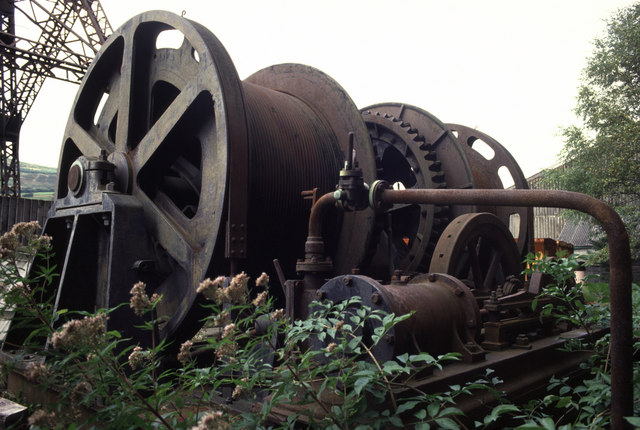 Cefn Coed Colliery Steam capstan for rope changing. Preserved as part of a museum pit.